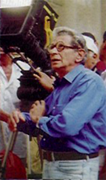 A profile of Youssef Chahine the Egyptian Film director (المخرج المصري العالمي يوسف شاهين عام 1982)